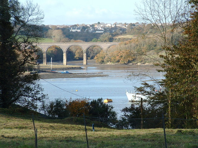 River Lynher towards Saltash taken from Antony estate